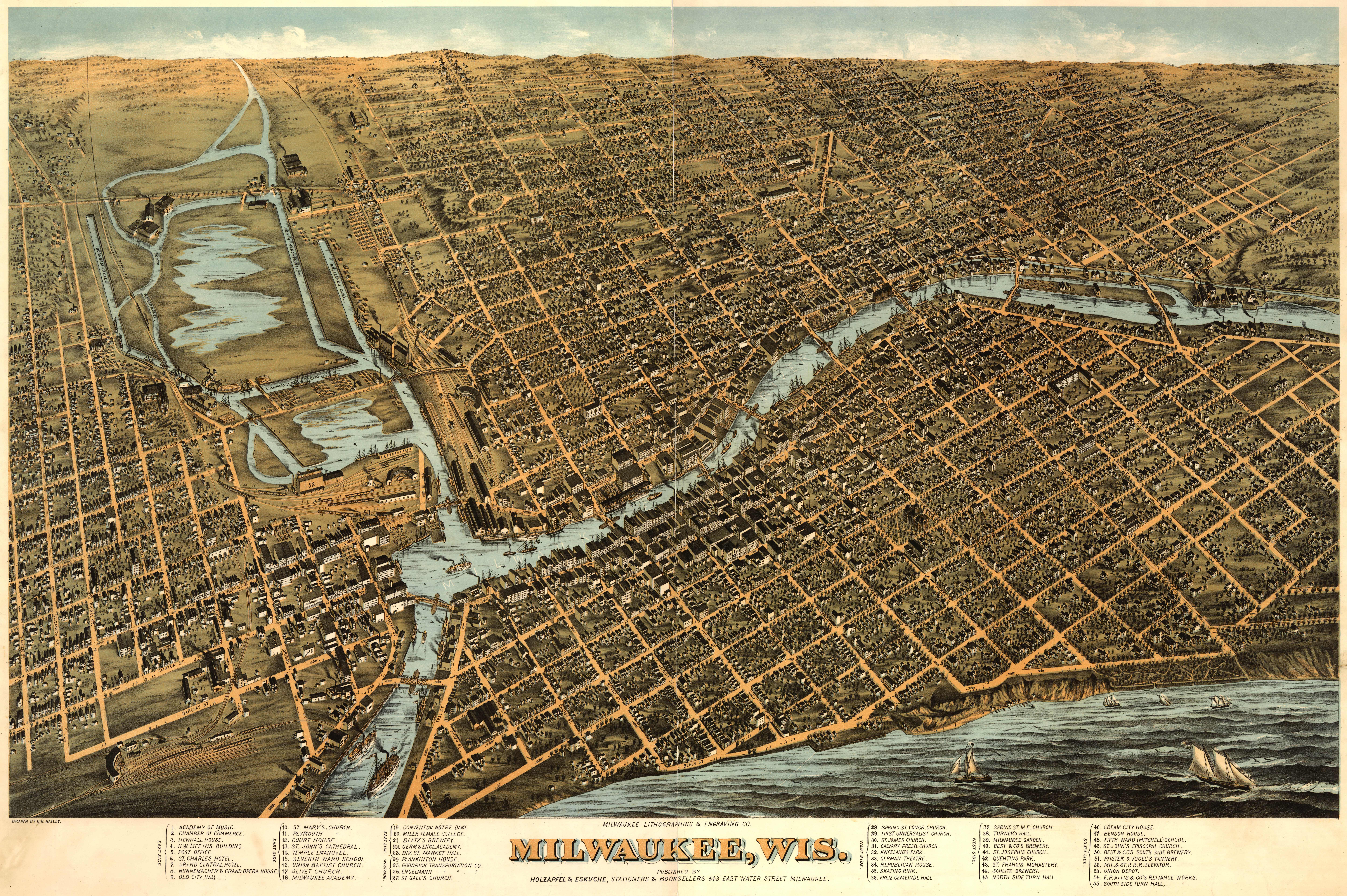 A birdseye view of Milwaukee, Wisconsin in 1872. Perspective map; not drawn to scale.